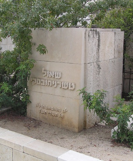 Tomb of Shaul Tchernichovsky (Hebrew poet) in Trumpeldor cemetery in Tel Aviv photographed by Eman, February 2006